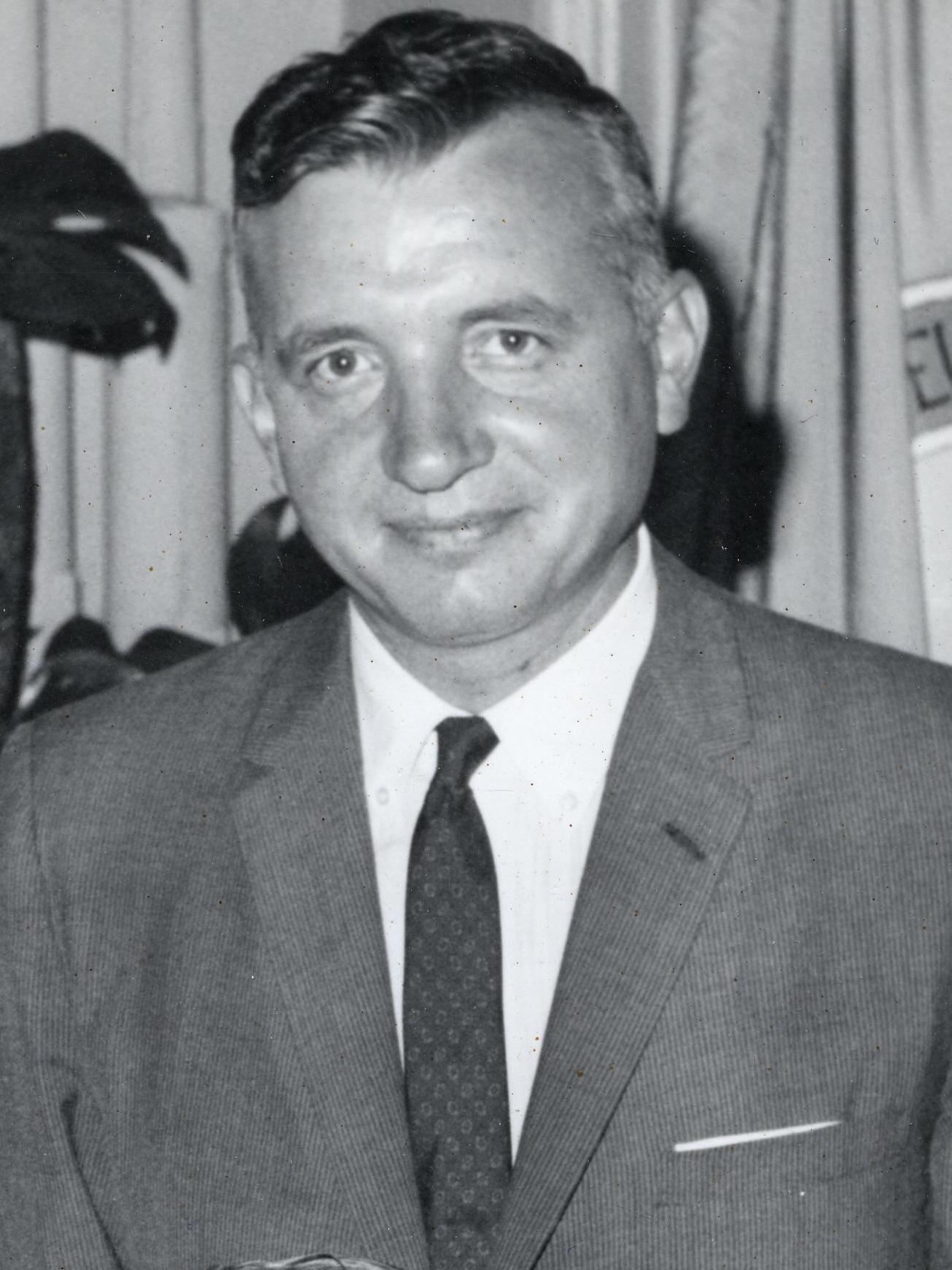 Title: John Ryan of the Boston Redevelopment Authority; Patrick McDonough, City Council President; Mrs. Ryan; Mayor John F. Collins Creator: City of Boston Date: circa 1960-1968 Source: Mayor John F. Collins records, Collection #0244.001 File name: 244001_0714 Rights: Copyright City of Boston Citation: Mayor John F. Collins records, Collection #0244.001, City of Boston Archives, Boston